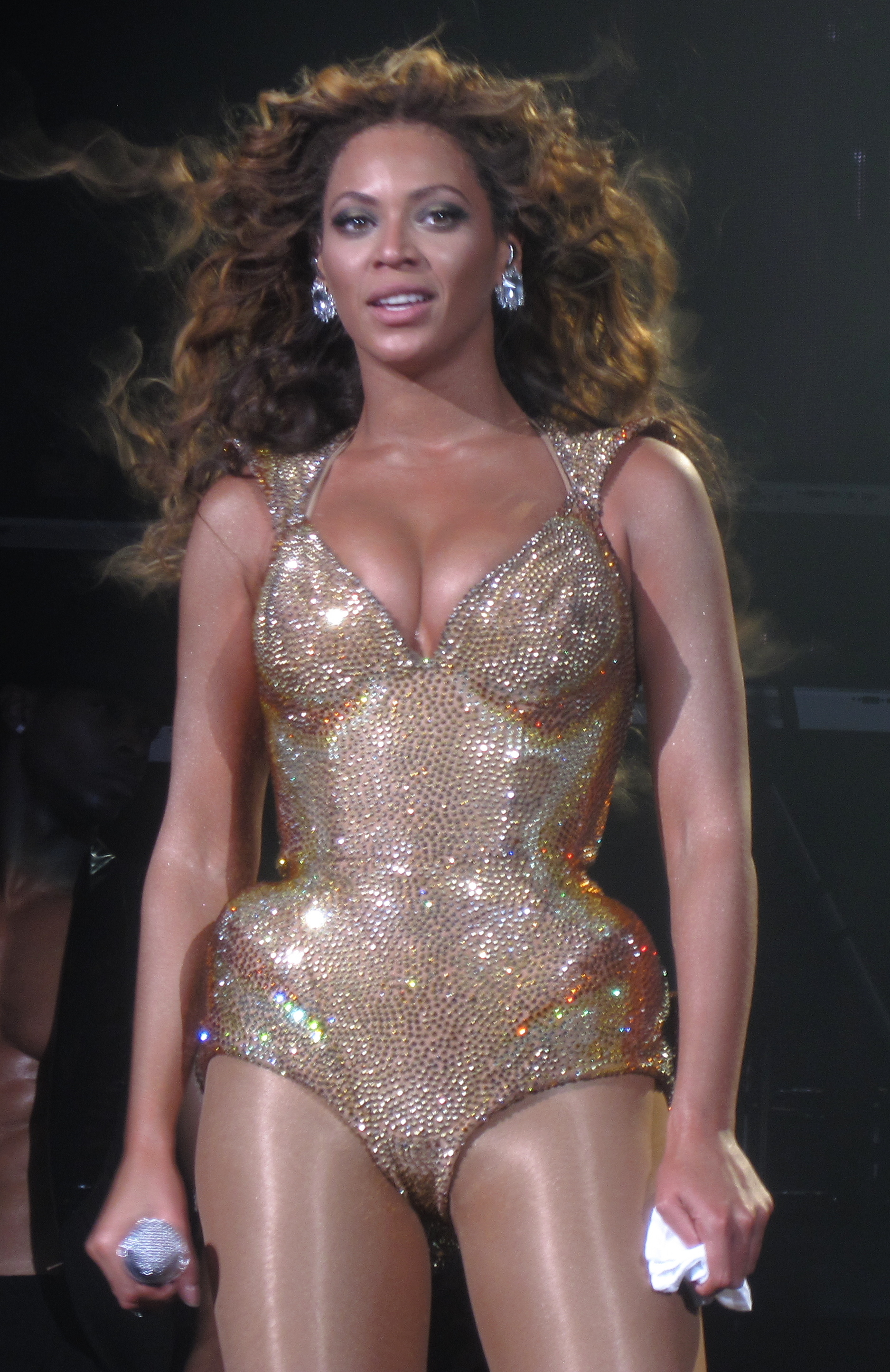 Beyoncé performing on The O2 in London.